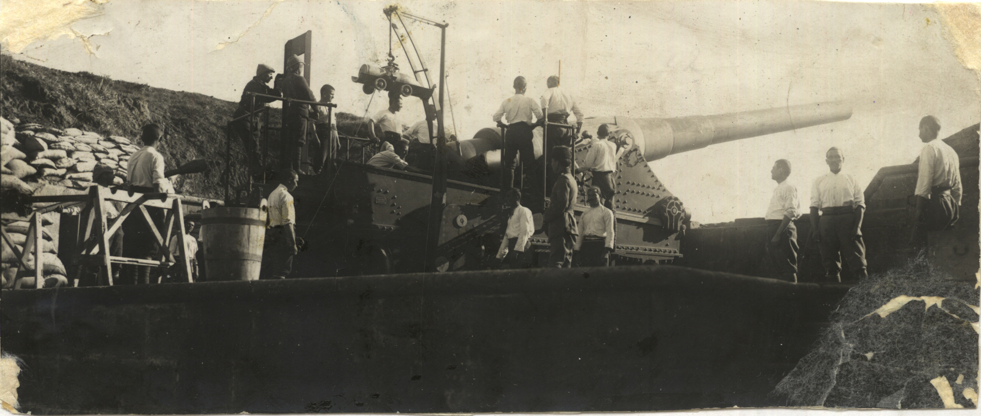 Ottoman 24 cm artillery at the Rumeli Medjidieh battery, which sank French battleship Bouvet